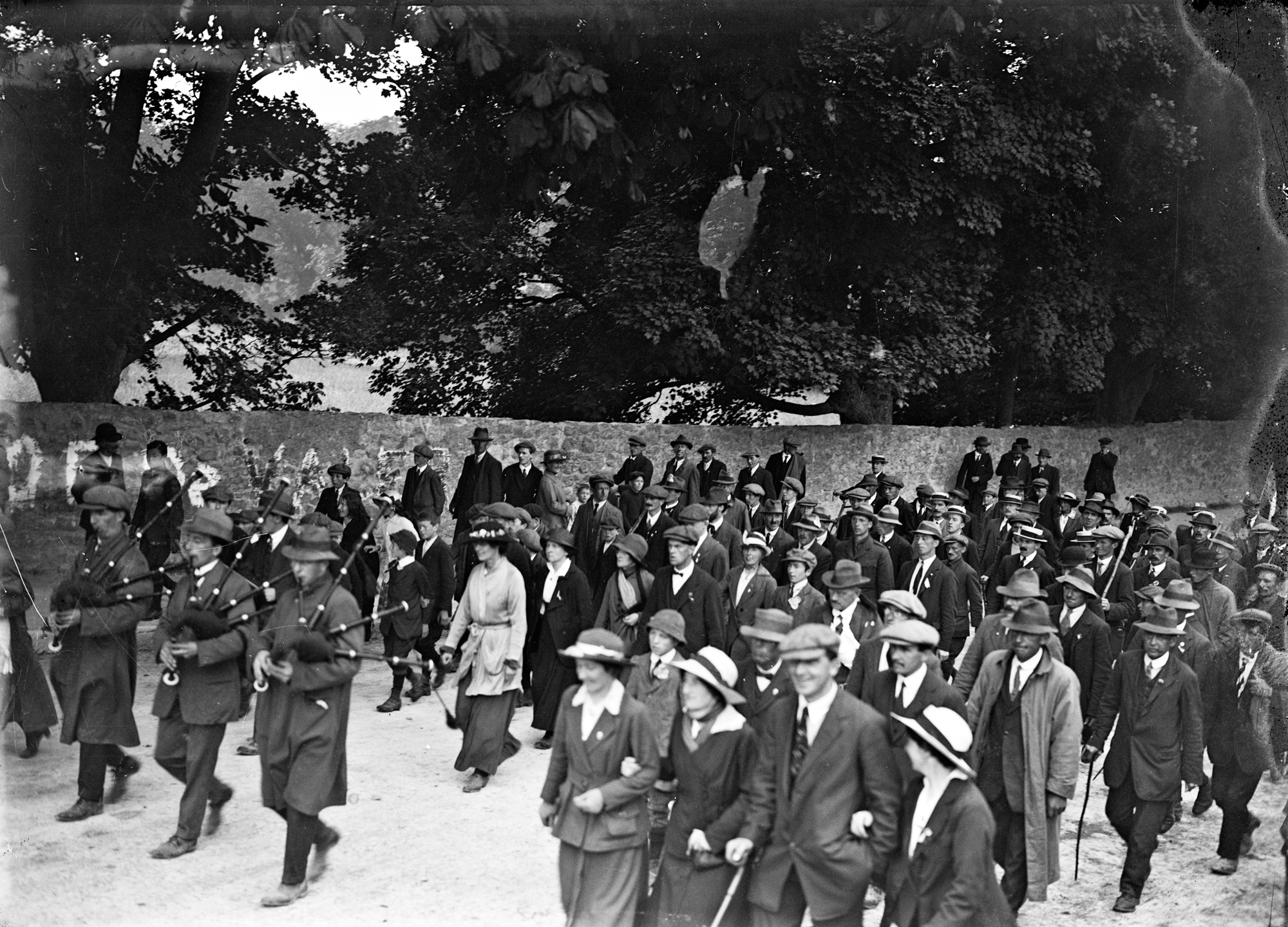 A victory parade following an election in Ennis in County Clare, seemingly with the Countess Markievicz in the lead wearing a white coat/dress. Finding the date will be easy but finding the location might be interesting - given the blank stone wall is the only distinguishing feature(?) Based on the contributions (past and more recent) on this image, it seems pretty clear the subject is a (victory) parade of Sinn Féin supporters, related to the East Clare by election of July 1917. DeValera won in a near landslide against the IPP candidate - in a precursor of what was to come in the 1918 general election. DeValera can be seen among the crowd - inline with the trunk of one of the right-hand trees, and below a man with a bike. As predicted, a confirmed location has been more elusive, although derangedlemur offers a solid candidate for that ballot on Cusack Rd (then Gaol Rd).... (Note the "[VOTE F]OR De VALER[A]" graffiti on wall) Photographer: Brendan Keogh Collection: Keogh Photographic Collection Date: c.1916 - 1920. But almost certainly July 1917. NLI Ref: Ke 130 You can also view this image, and many thousands of others, on the NLI’s catalogue at